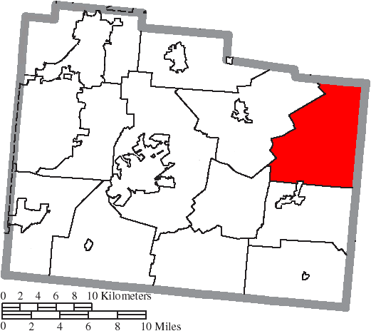 Map of the municipal and township boundaries of Greene County, Ohio, United States, as of the 2000 census, with the location of Ross Township highlighted. Township borders are shown only in unincorporated areas in order to differentiate incorporated and unincorporated areas more clearly.